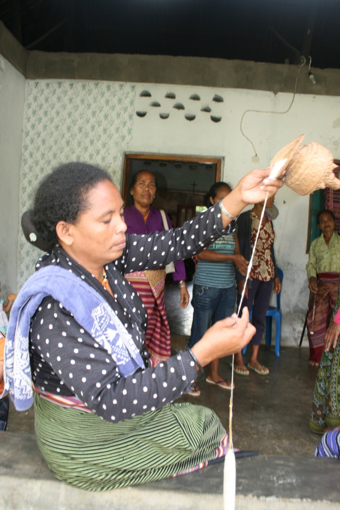 A woman in Losplaos makes string traditionally from cotton she grew from her farm. Timor Leste 2008. Photo: AusAID